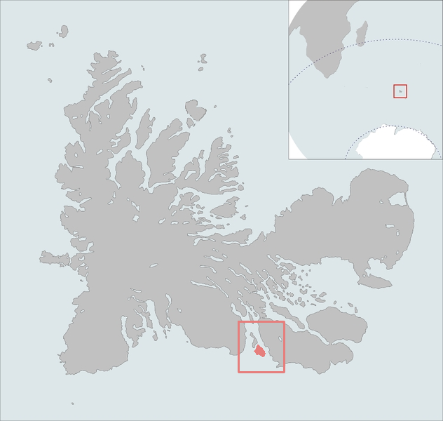 Position of Île Gaby, in the Kerguelen Islands. Drawn by Varp and coloured by lal.sacienne.